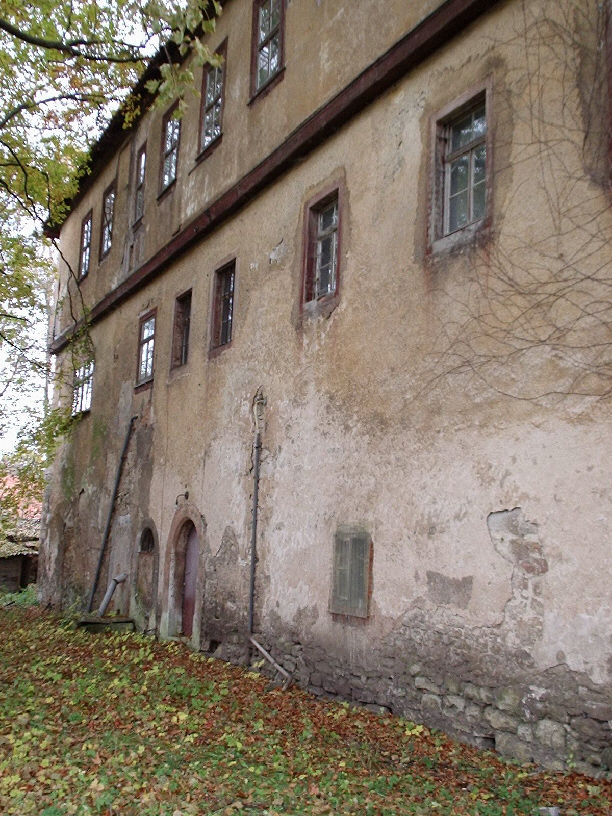 The Gelbes Schloss called building in Sonneborn.